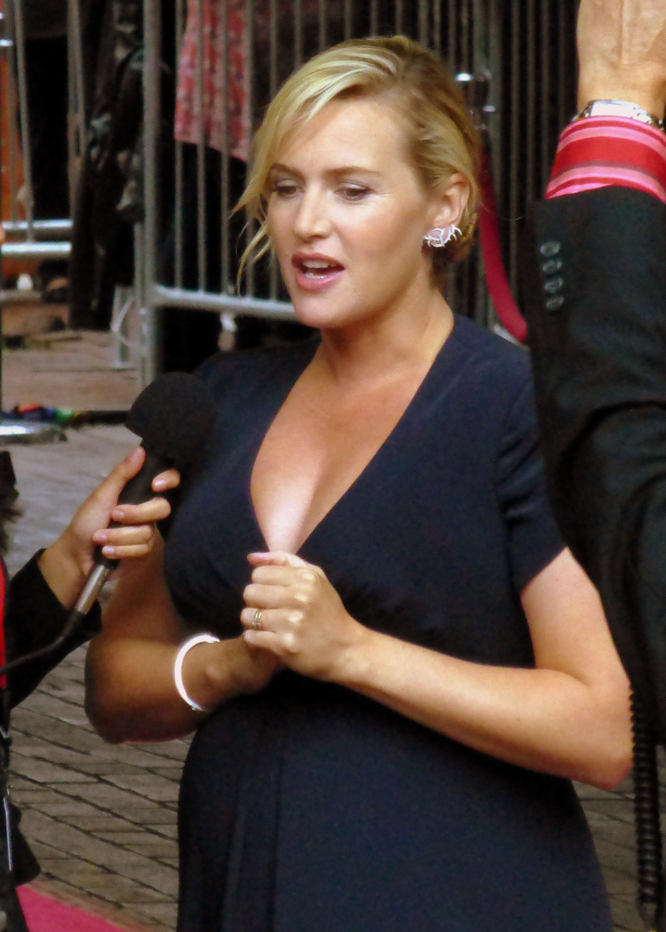 Kate Winslet at the premiere of Labor Day, Toronto Film Festival 2013